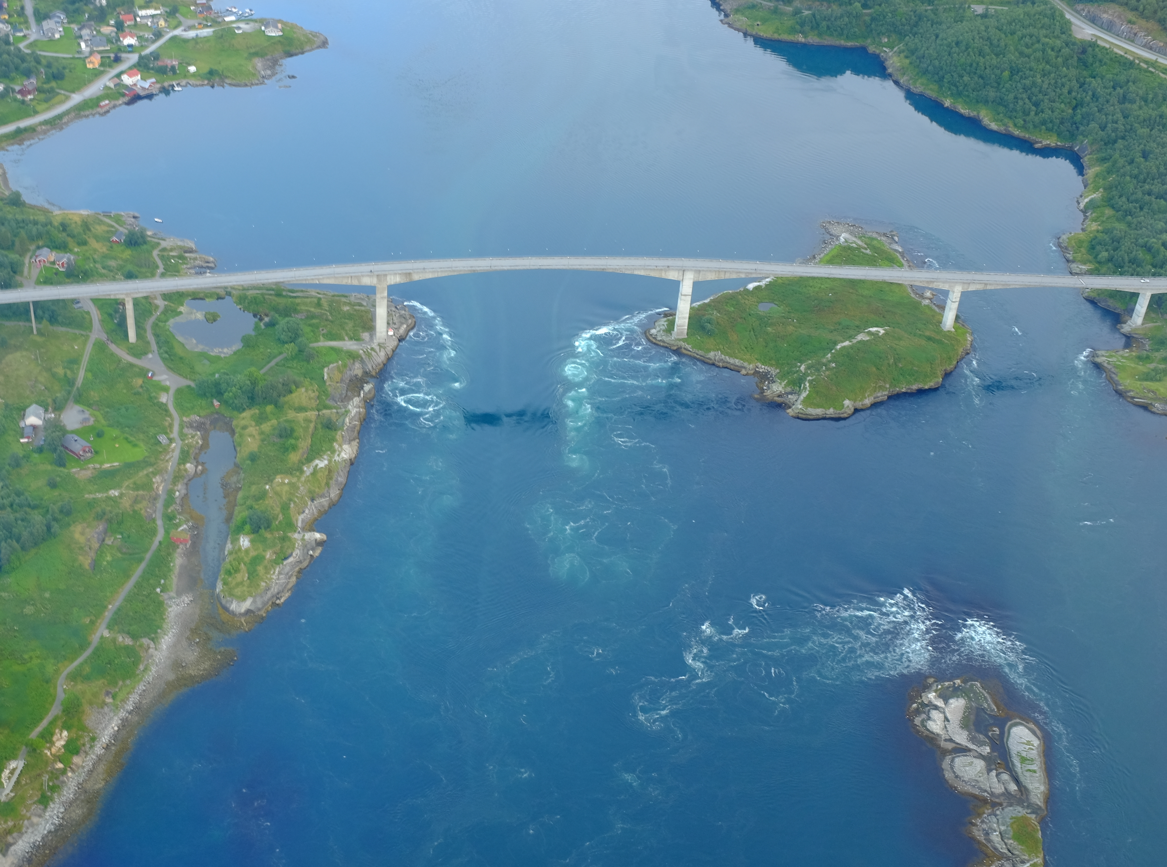 Saltstrømen in Bodø, Nordland, Norway. Saltstraumen is a small strait with the strongest tidal current in the world.